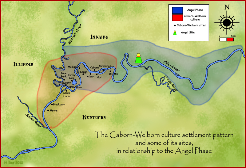 A map showing the Caborn-Welborn culture and some of it's major sites in relationship to the Angel phase chiefdom.